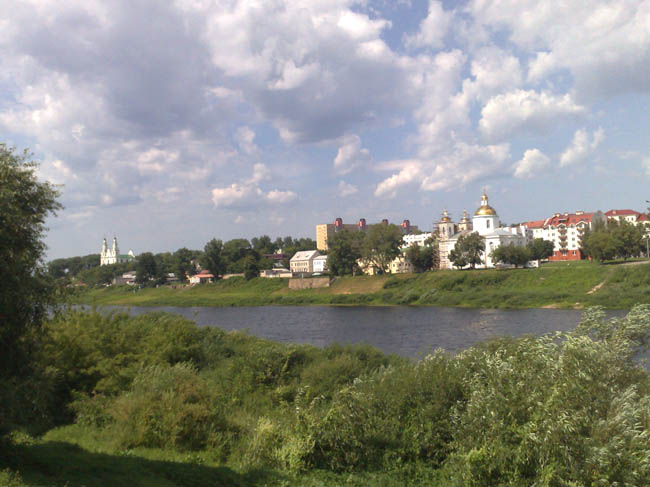 Bogoyavlensky Monastery in Polotsk (Belarus)